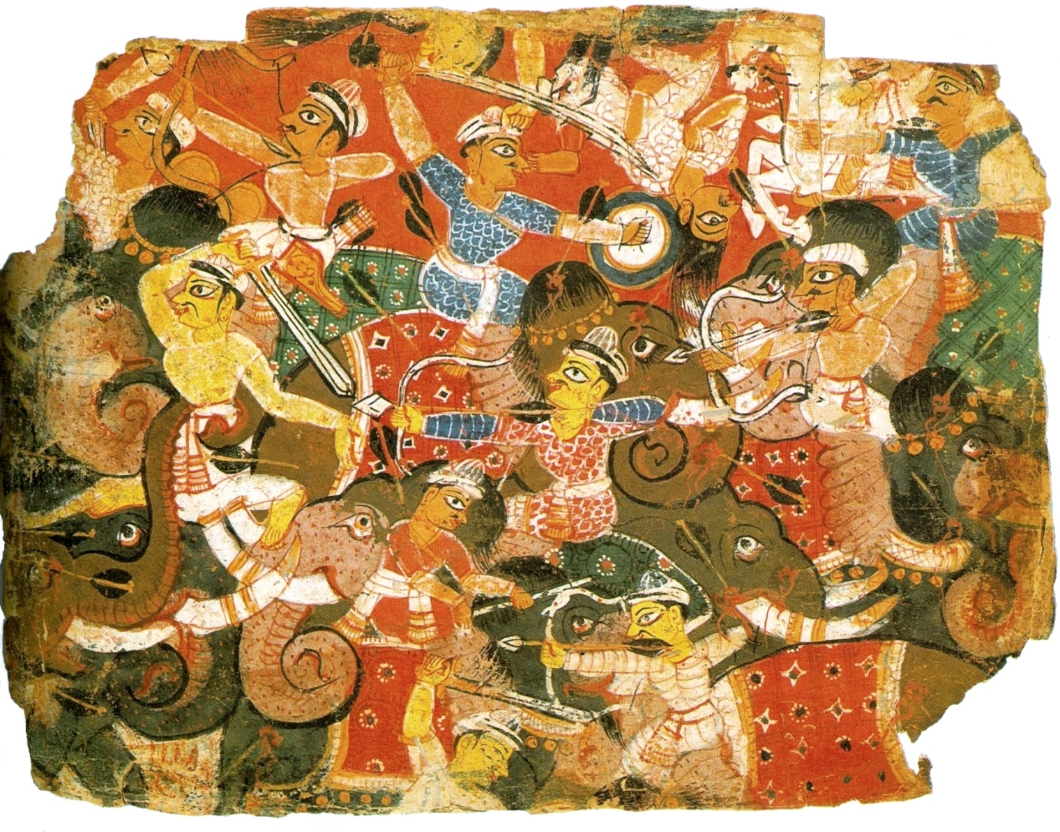 Battle Scene. Bhagavata Purana. Uttar Pradesh or Malwa, or Delhi-Agra. 2nd quarter of 16 century. The Cronos Collection New-York